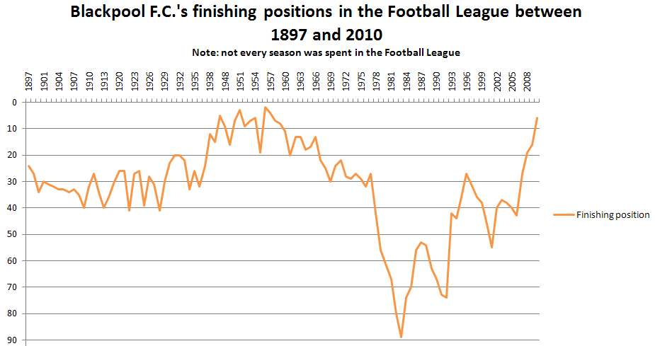 Finishing positions of Blackpool F.C. in the Football League.